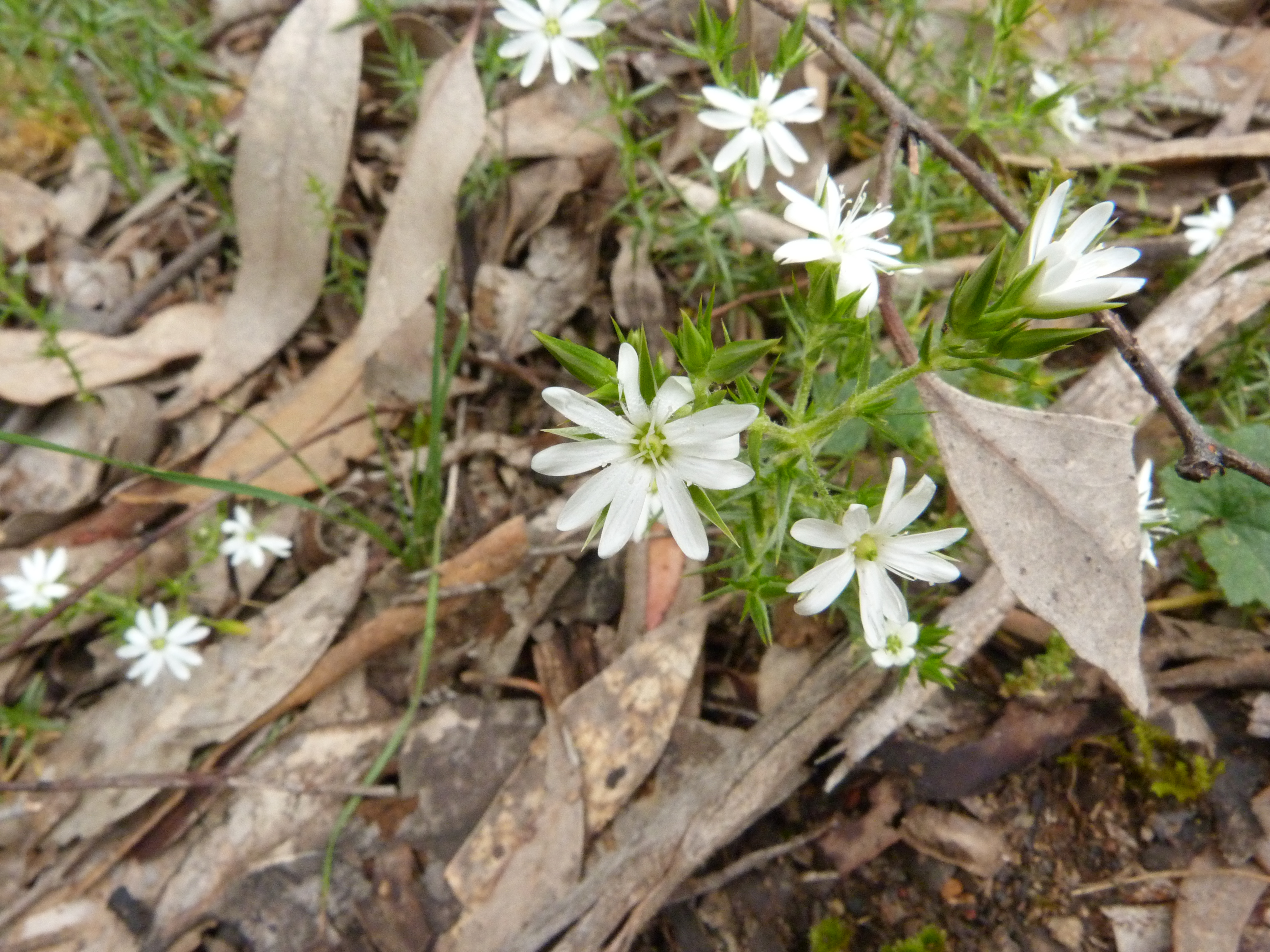 Stellaria pungens Brongn., Black Mountain, Canberra, ACT, 1 November 2010